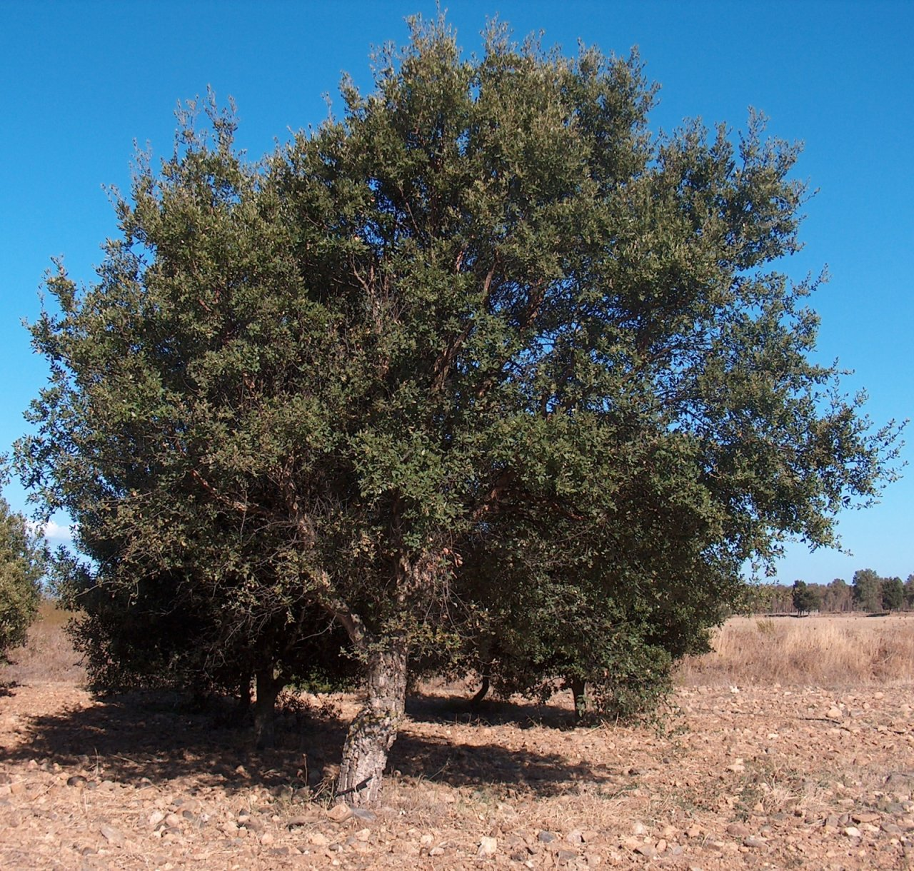 Plant 12 years old of Cork Oak (Quercus suber L.)